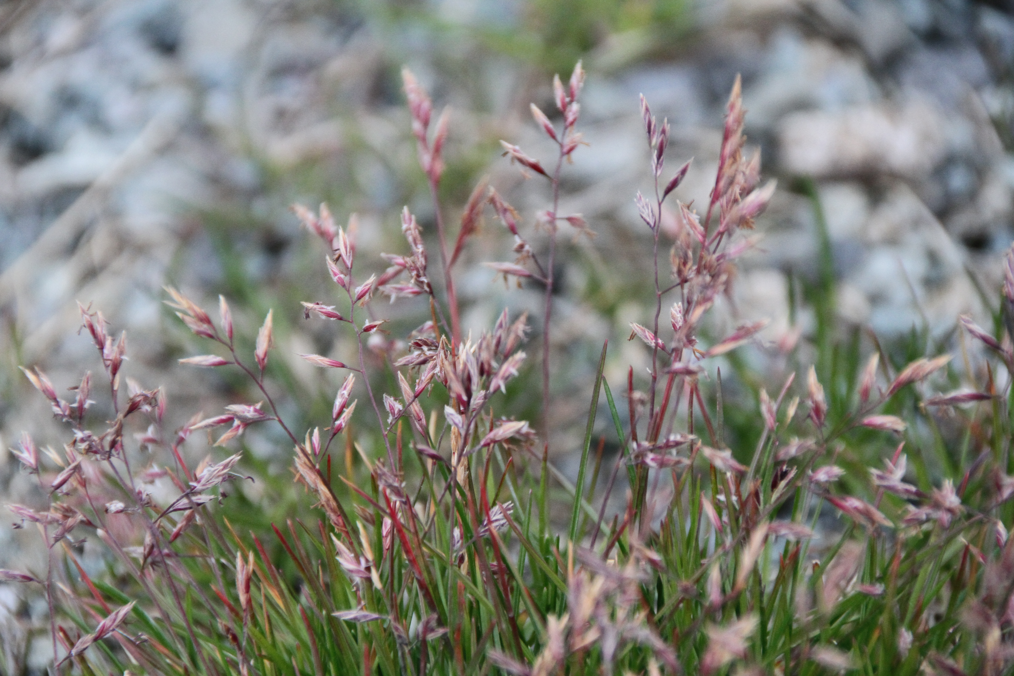 Photo of grass specie in Longyeearbyen area, Spitsbergen - Svalbard (Norway)